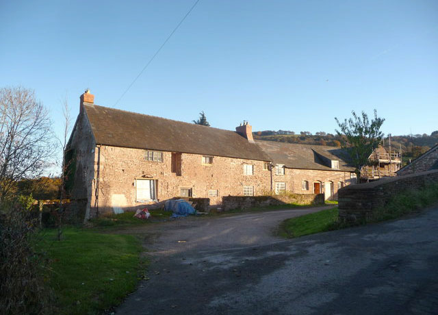 Tresenny Farmhouse, a Grade II* listed early 17th century house and barn south of Grosmont, Monmouthshire